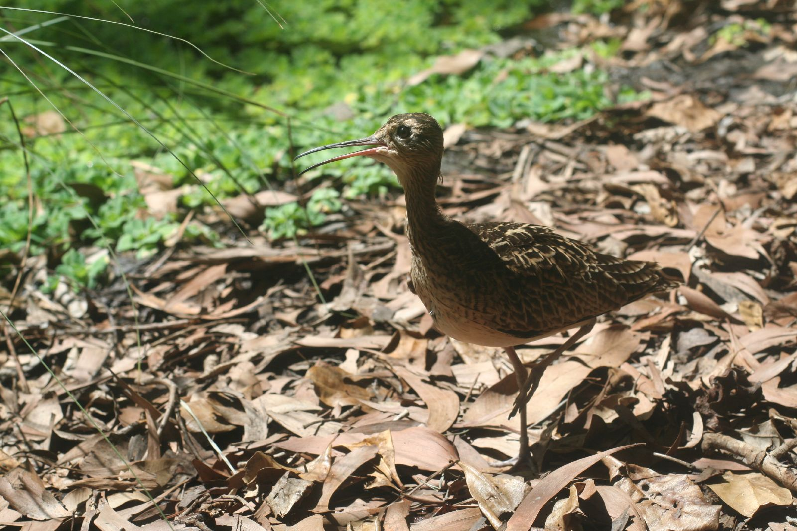 Little Curlew Numenius minutus, captive, Territory Wildlife Park, Northern Australia